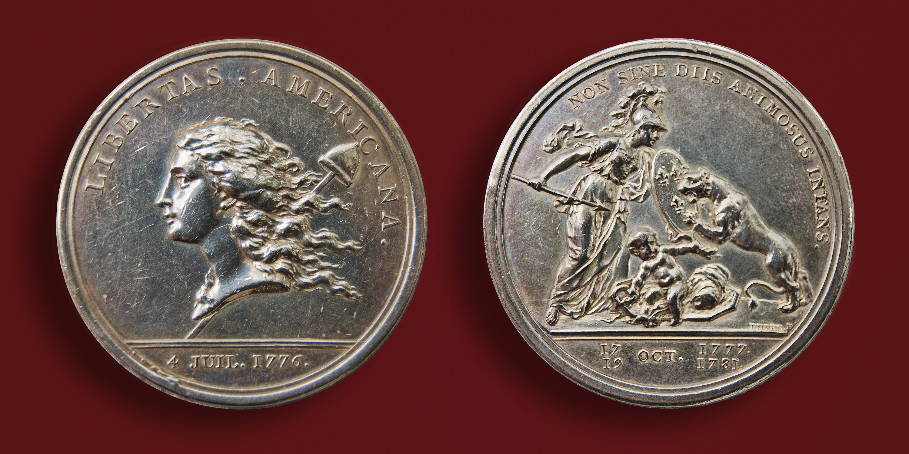 "LIBERTAS AMERICANA" Silver Medallion, 1783. Designed by Benjamin Franklin and Esprit-Antoine Gibelin; sculpted/engraved by Augustin Dupré. Struck at the "Mint for Medals at the Louvre", Paris, France. Silver, 47.5mm, 45.7 gm (1.612 oz) Obverse: LIBERTAS AMERICANA (American Liberty) across the top over a bust of Liberty with flowing hair and Phrygian cap on a pole behind her. The Date 4 JUIL. 1776 (4 July 1776) is spelled from the shortened French form 4 JUILLET 1776, in the exergue, Signature DUPRE appears at the truncation of the bust. Reverse: The infant Hercules, symbolic of the United States, strangling two snakes that represent the British armies at the Battle of Saratoga and Siege of Yorktown; Minerva at the left with the fleurs-de-lis of France on her shield and a spear in hand thwarting the attack of a lion representing Britain. Above is the motto NON SINE DIIS ANIMOSUS INFANS, from Horace's ode "Descende coelo" translates "The infant is not bold without the aide of the gods." Two dates with a common month, 17 OCT. 1777 and 19 OCT. 1781 (shortened OCTOBRE, French for October), in the exergue signify the American victories at Saratoga and Yorktown. Signature DUPRE F. appears at the lion's feet. Medallion Composite digital image